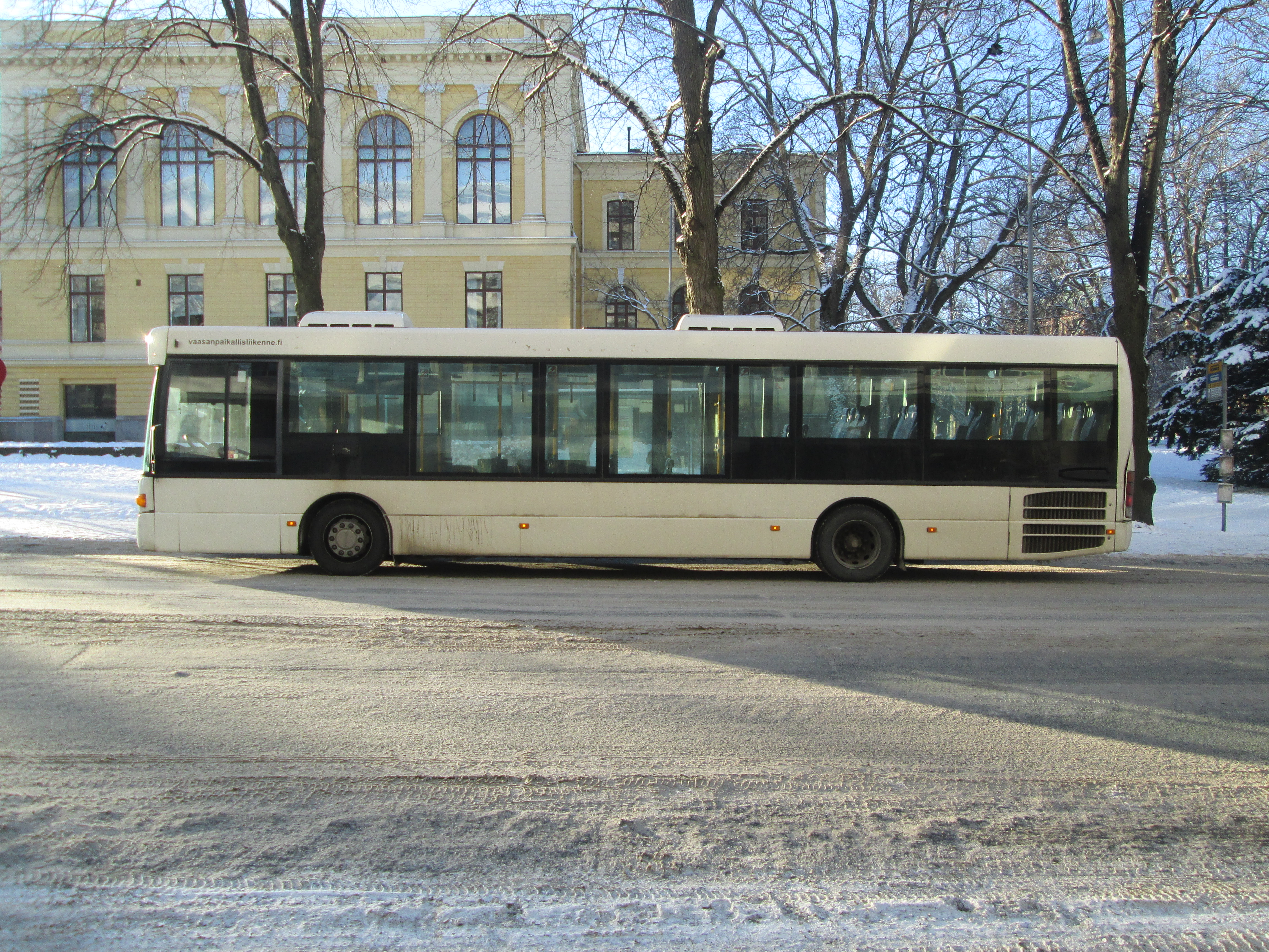 Vaasan Paikallisliikenne 36 ZKB-659 (Omnilink / Scania CL94UB 4x2 LB) on Raastuvankatu, Vaasa, Finland